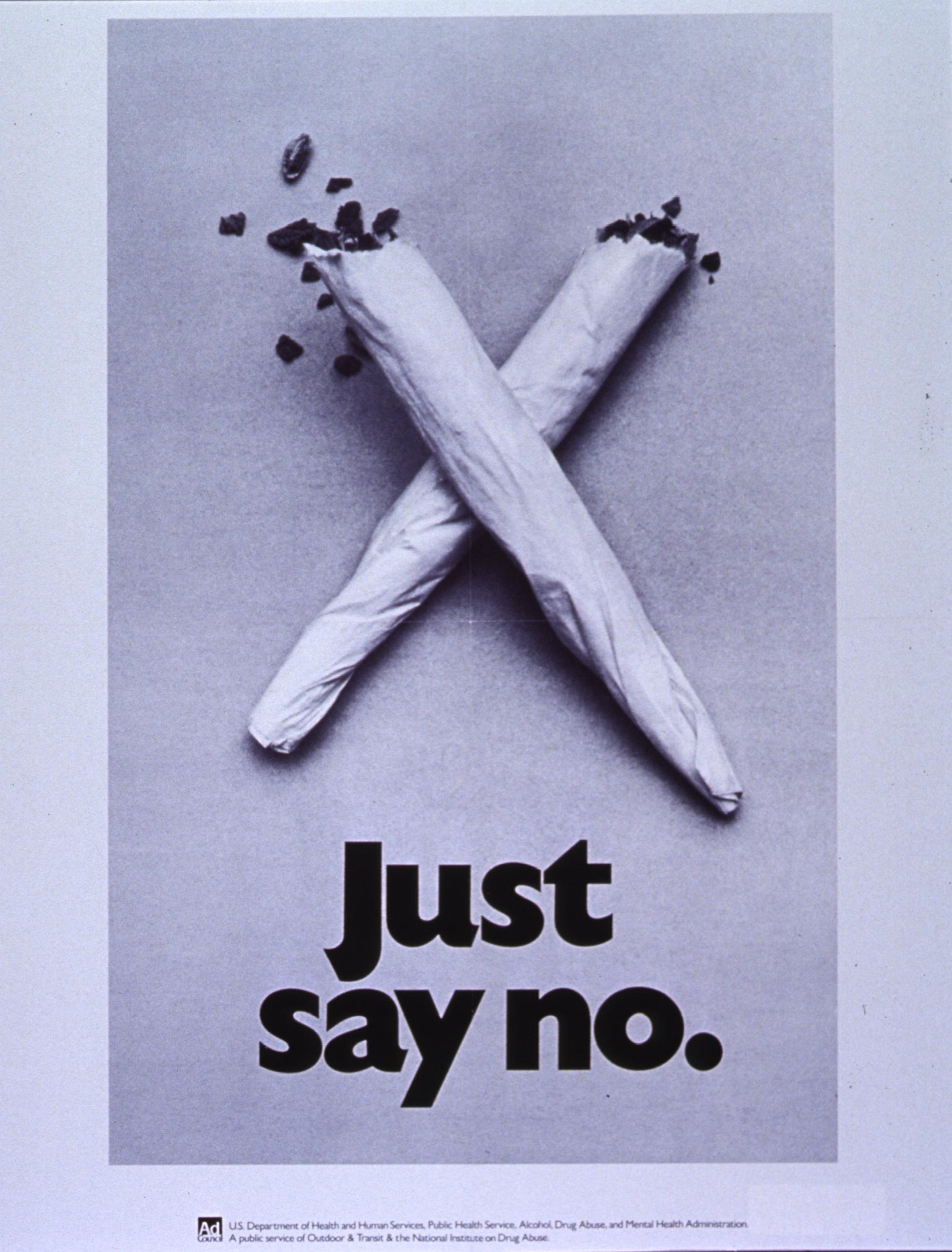 Contributor(s): United States. Alcohol, Drug Abuse, and Mental Health Administration. Advertising Council. Publication: [Rockville, Md.] : Alcohol, Drug Abuse, and Mental Health Administration, [198-?] Language(s): English Format: Still image Subject(s): Substance-Related Disorders -- prevention & control Cannabis Abstract: White poster with photo image of two marijuana cigarettes crossed to form an "x". Title in bold black print under cigarettes. Logo for the Ad Council and names of supporting agencies at bottom of poster. Extent: 1 photomechanical print (poster) : 56 x 44 cm. Technique: black and white NLM Unique ID: 101437720 NLM Image ID: A025387 Permanent Link